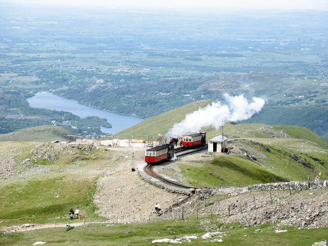 Trains at Clogwyn Station - the terminus for the time being